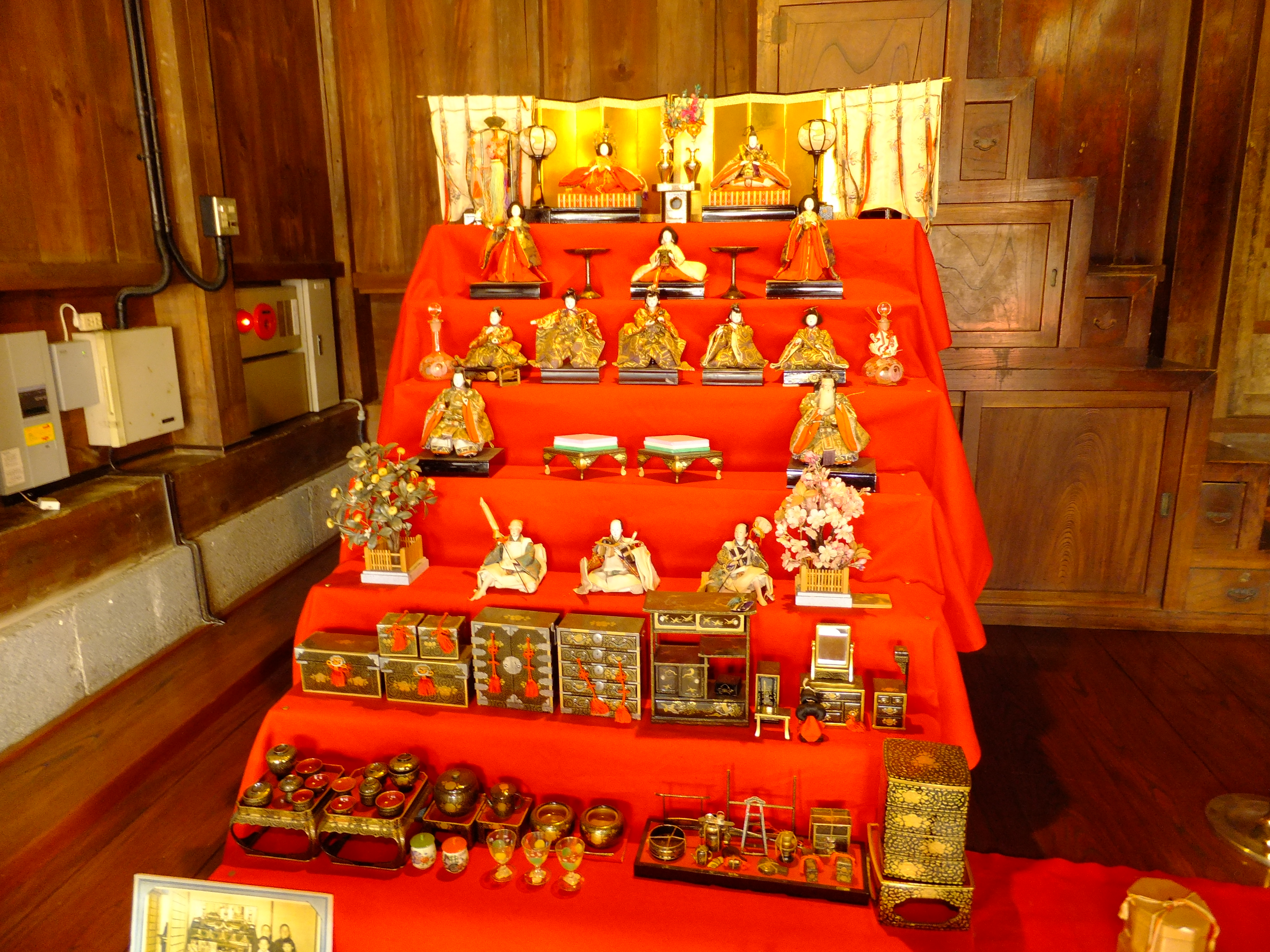 Hina Dolls display in March, Japan